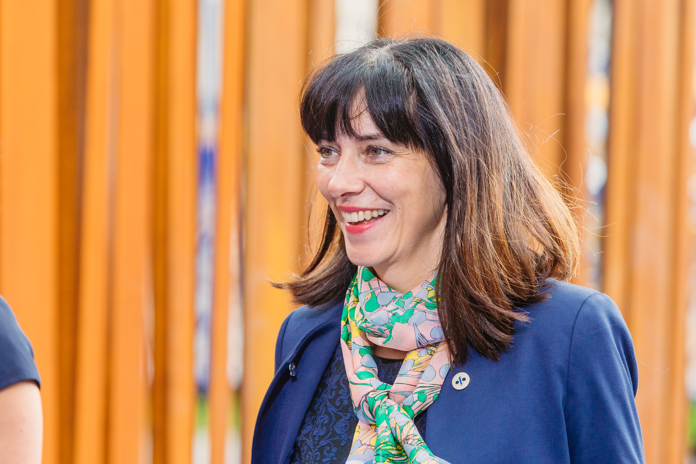 Blaženka Divjak, Minister, Ministry of Science and Education, Croatia Photo: Arno Mikkor (EU2017EE)